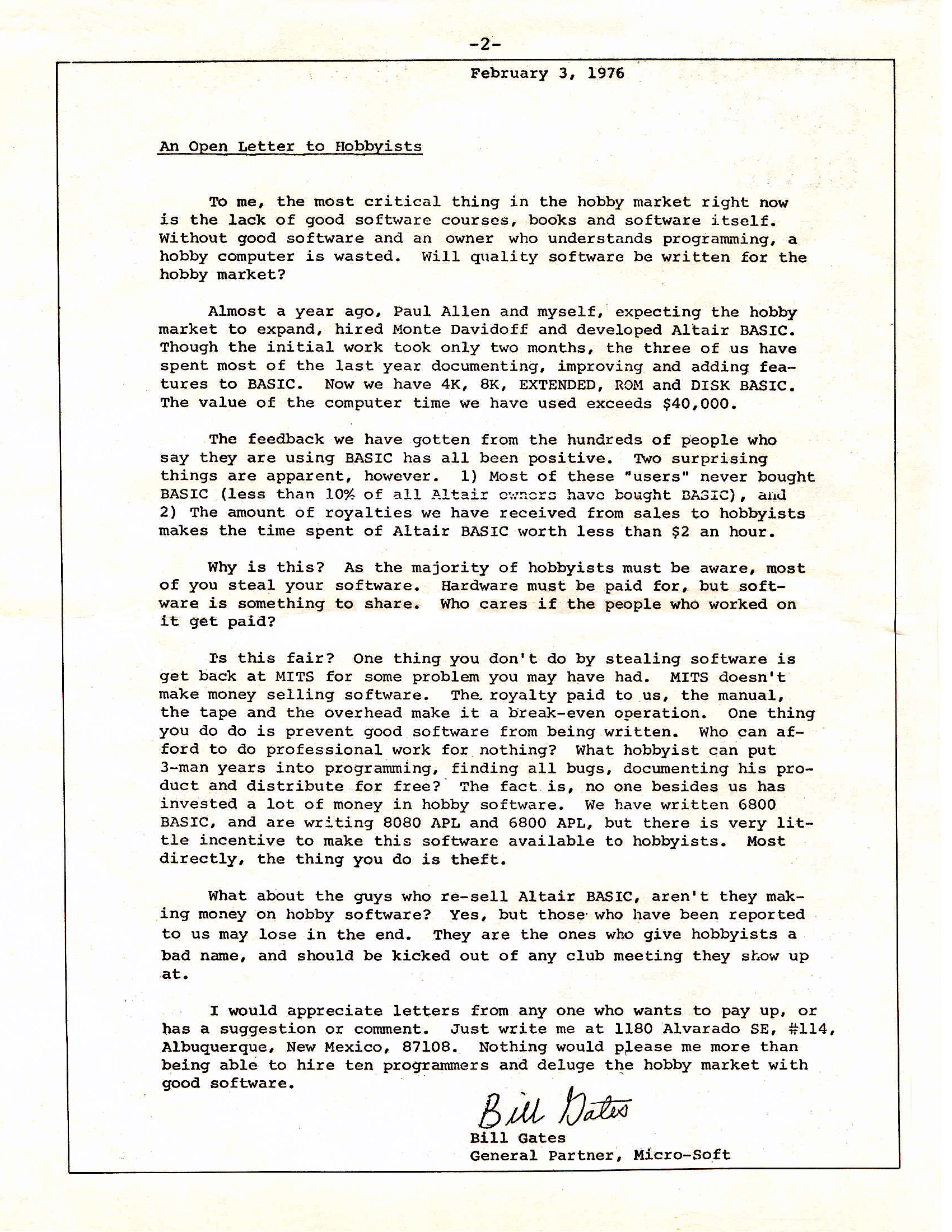 Homebrew Computer Club Newsletter Volume 2, Issue 1, January 31, 1976 A LETTER FROM MITS - Just as the Newsletter was in final preparation a letter arrived from Bill Gates via MITS. Reproduced (the only MITS "software" we have ever reproduced) on page 2, it should be read by every computer hobbyist. Surely many of you will want to write to Bill. Send a copy of your correspondence to me at the HOMEBREW COMPUTER CLUB NEWSLETTER, P. 0. Box 626, Mountain View, CA 94042 and I will try to summarize your comments. Editor: Robert Reiling Dave Bunnell of MITS sent the letter via special delivery mail to every major computer publication in the country. The letter was also published in MITS Computer Notes (February 1976, page 3), People's Computer Company (March 1976), and Radio-Electronics (May 1976, pages 14 and 16).